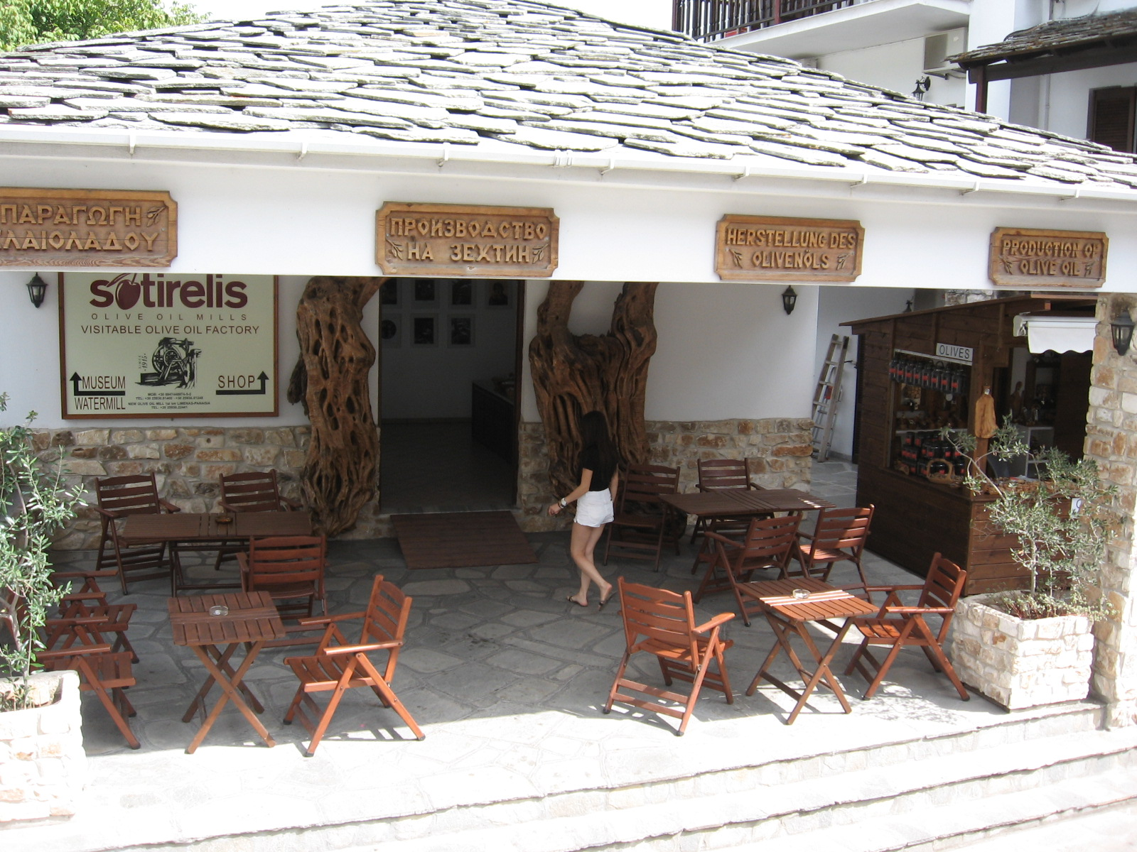 Museum of olive oil Panagia